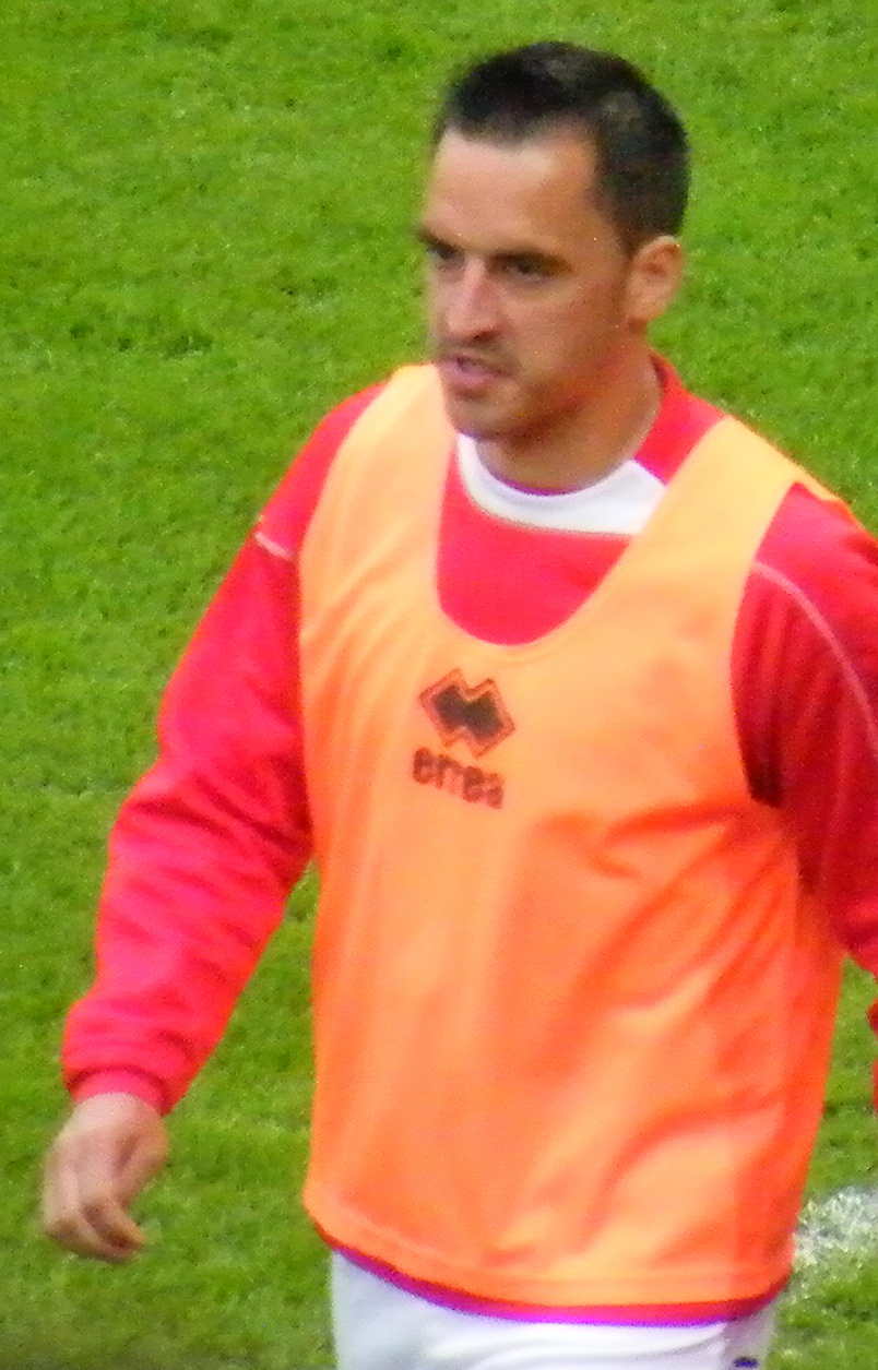 Bojan Brnović Serbian football player